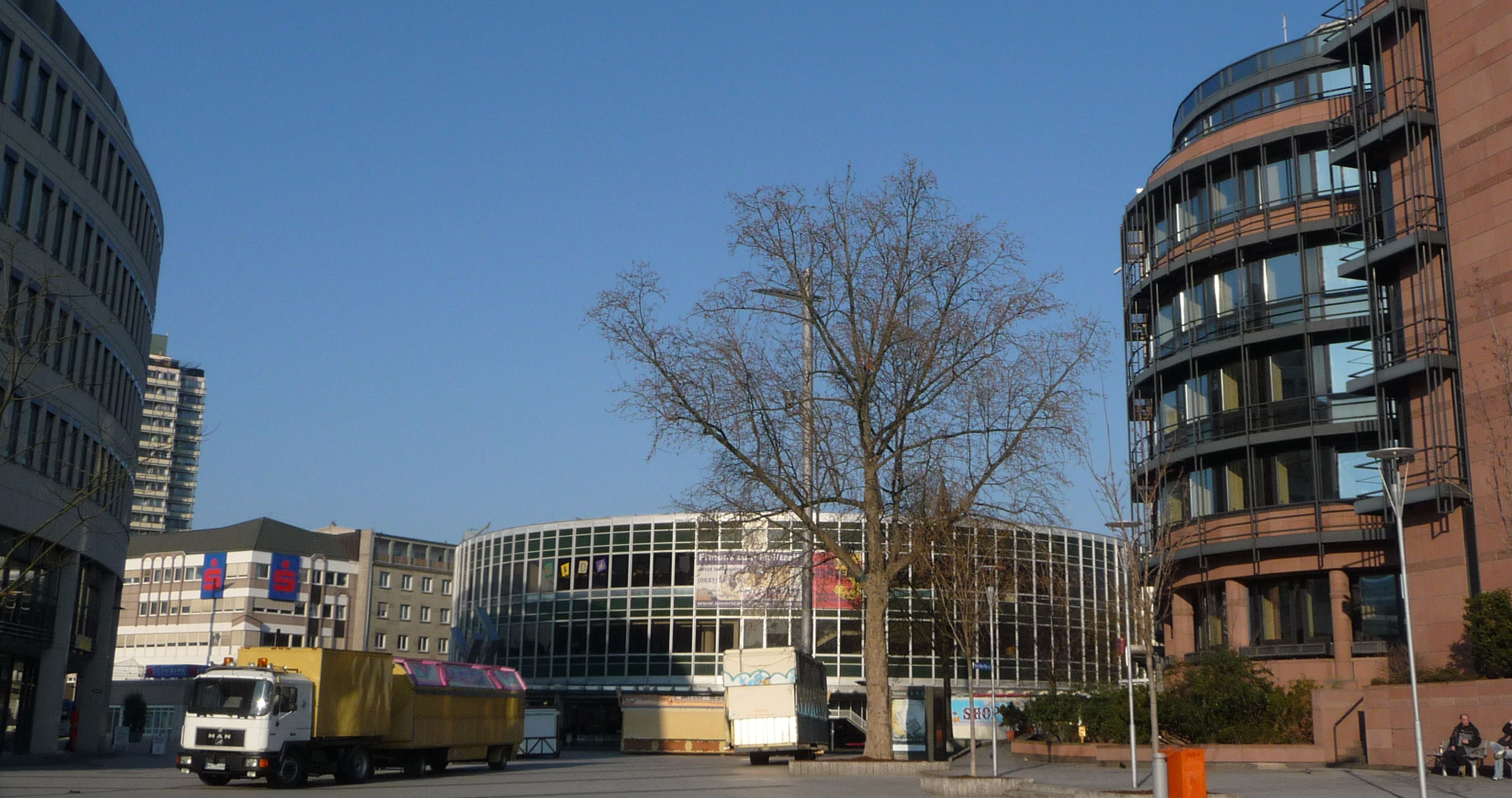 Square in Ludwigshafen, Germany